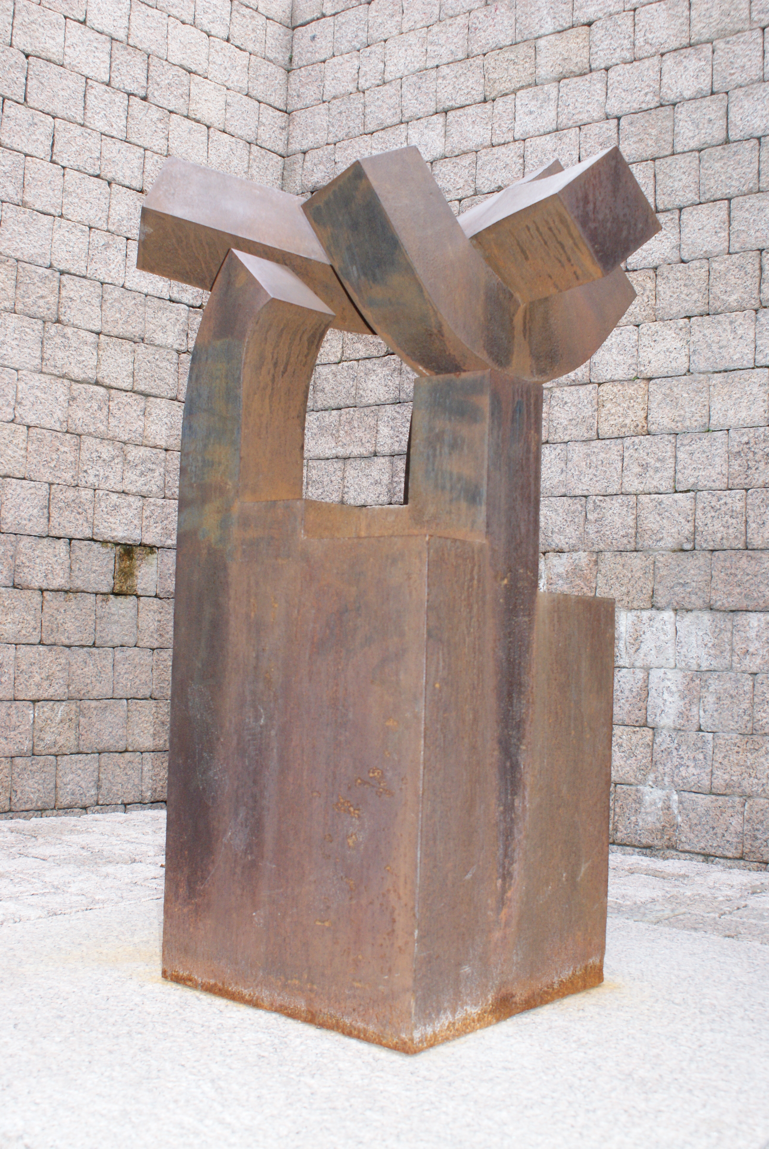 In Foru Square, Vitoria-Gasteiz